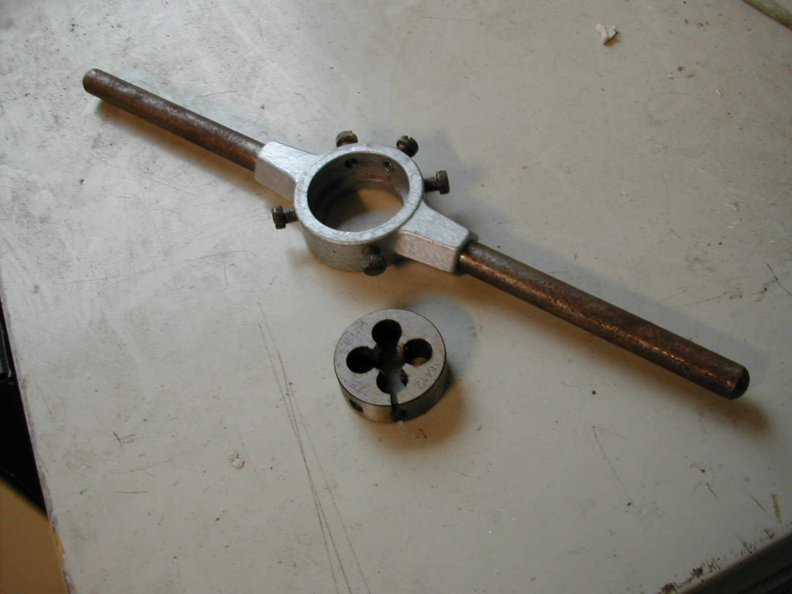 Die and holder